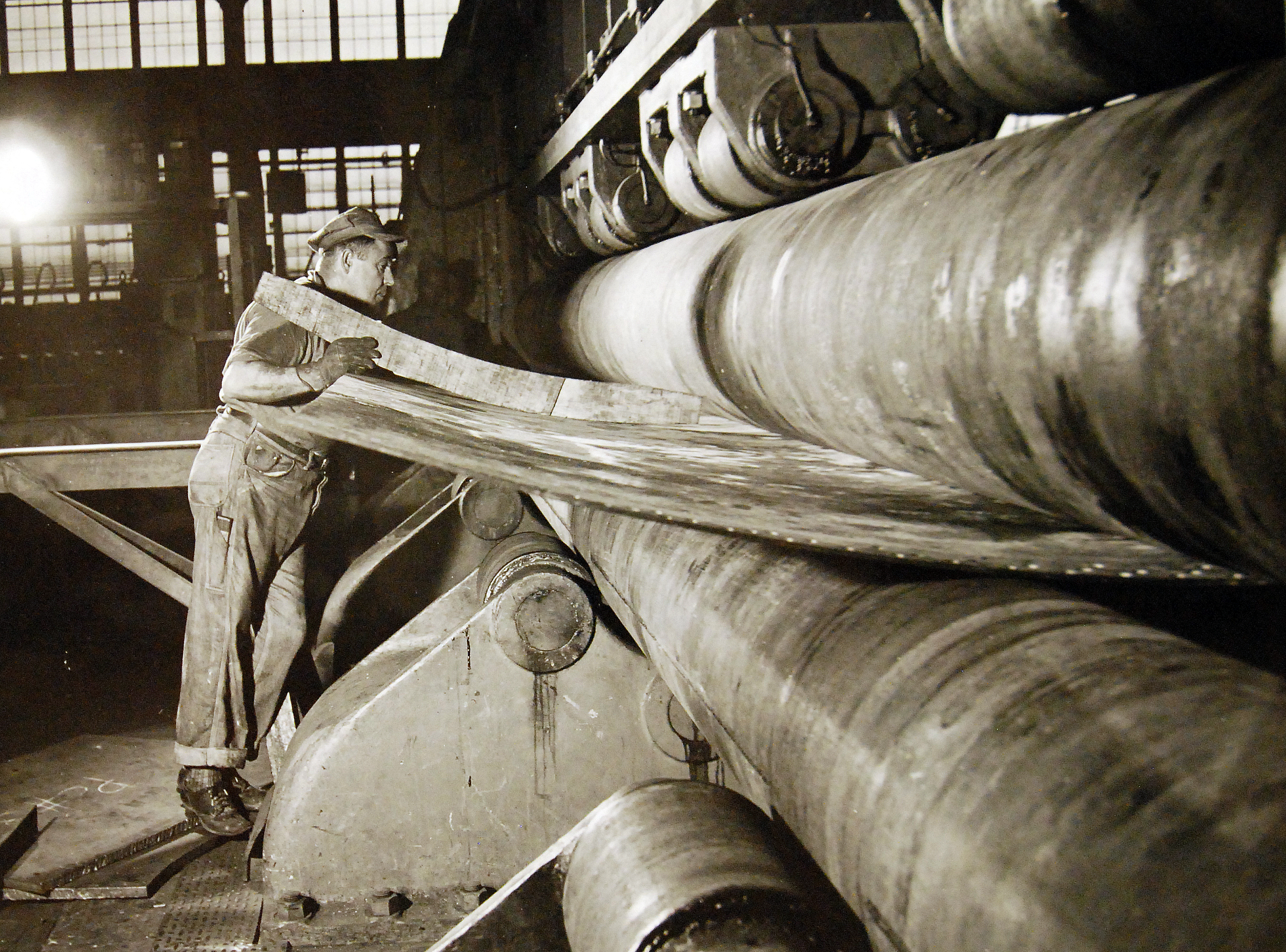 Lot-2068-3: Norfolk Naval Shipyard, Norfolk, Virginia. Shipbuilding. Tedious and exacting is the work of this highly skilled machinist. He is shaping a ship’s plate, a difficult operation which must be accurate to the “nth” degree. Office of War Information photograph, circa October 1941. Courtesy of the Library of Congress. (2016/04/14).